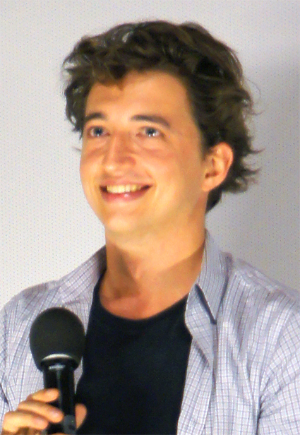 American director Benh Zeitlin discussing his new film Beasts of the Southern Wild at the Fantasy Film Festival in Berlin (Cinemaxx, Potsdamer Platz)